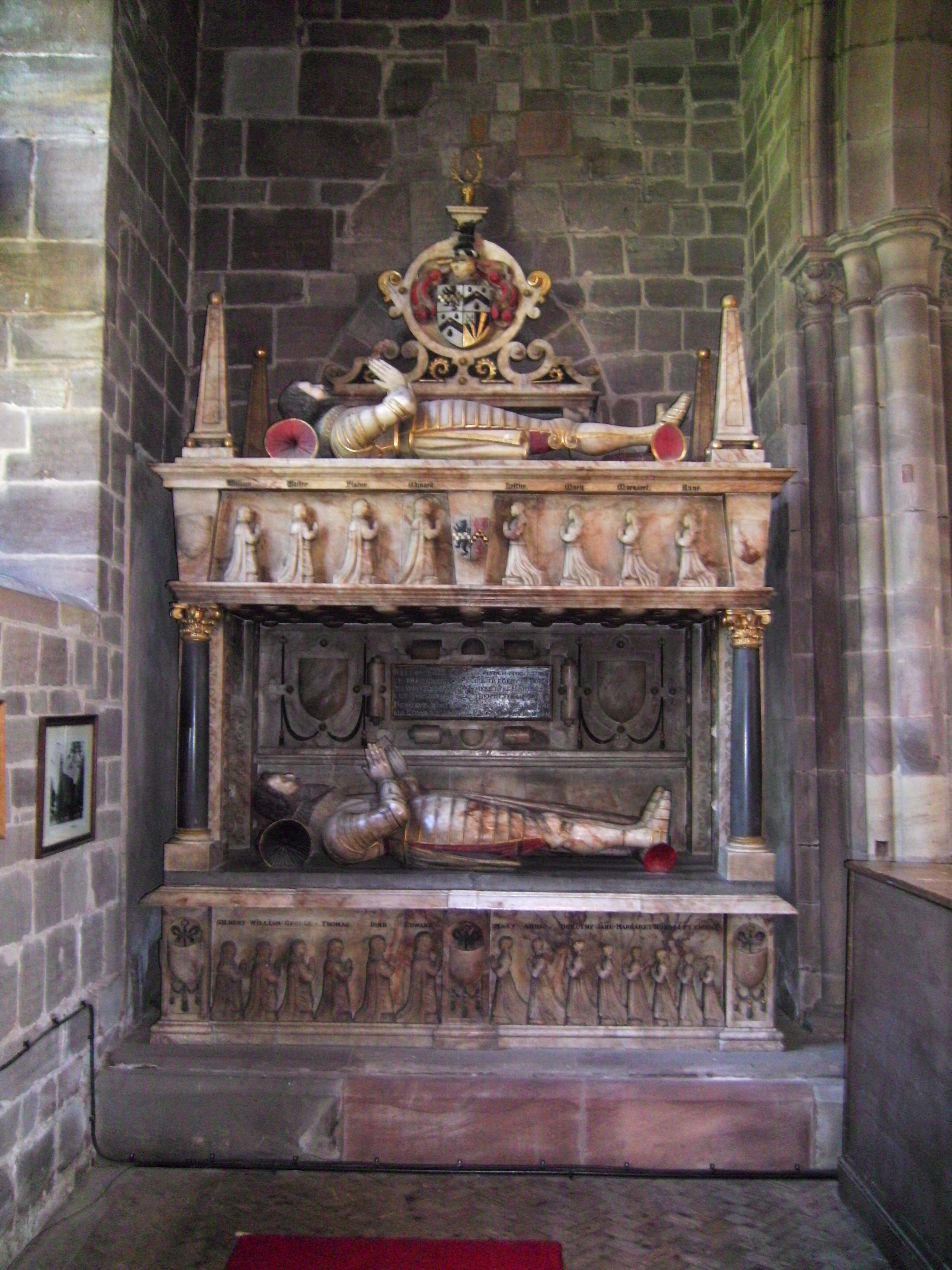 St. Michael and All Angels parish church, Penkridge, Staffordshire: Jacobean tomb of two Sir Edward Littletons, father and son. East wall of north chancel aisle. Lower stage: Sir Edward Littleton (died 1610) and his wife Margaret Devereux. Upper stage: Sir Edward (died 1629), and his wife Mary Fisher.